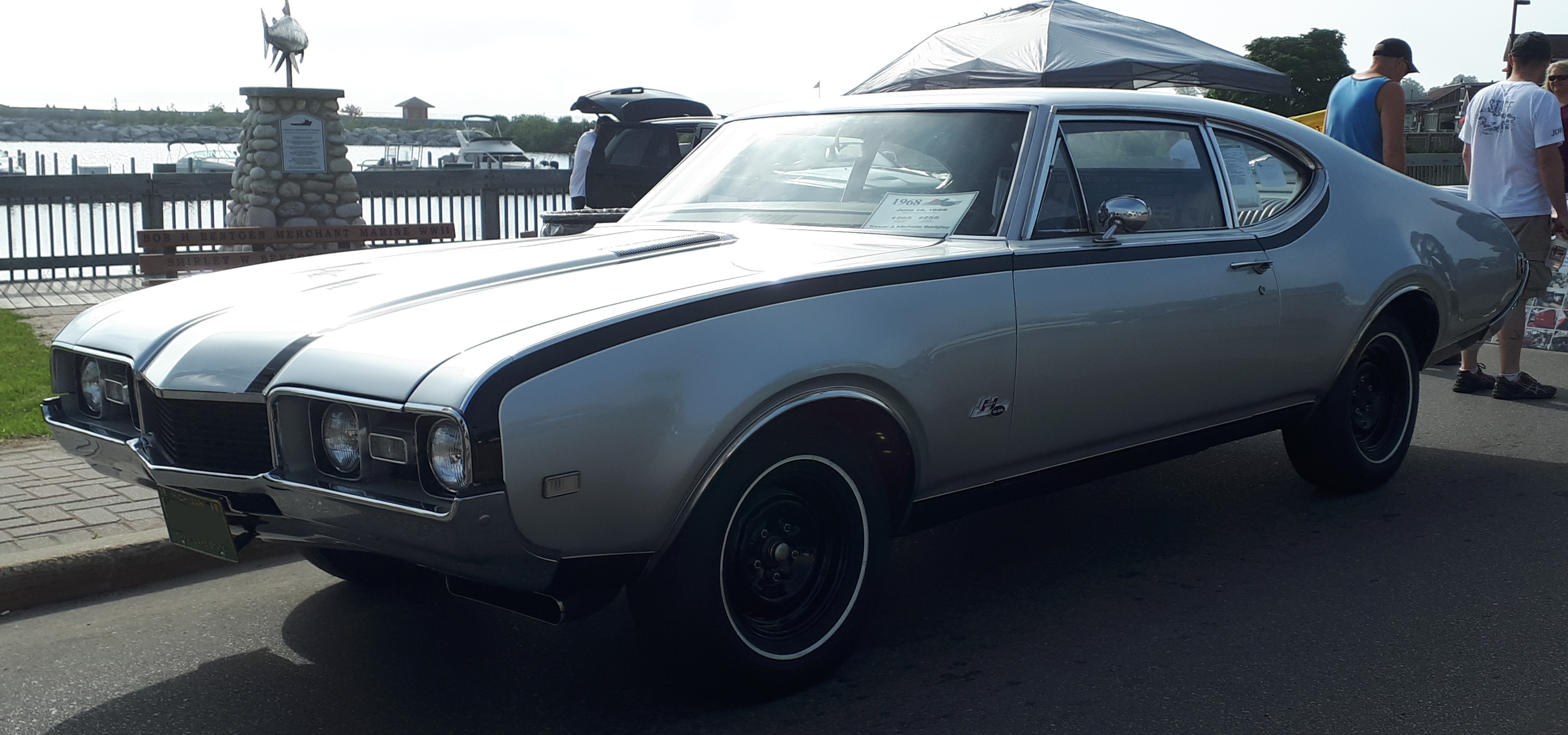 1968 Oldsmobile Hurst/Olds Sport Coupe photographed in St. Ignace, Michigan at the annual St. Ignace car show weekend. One of 51 made.